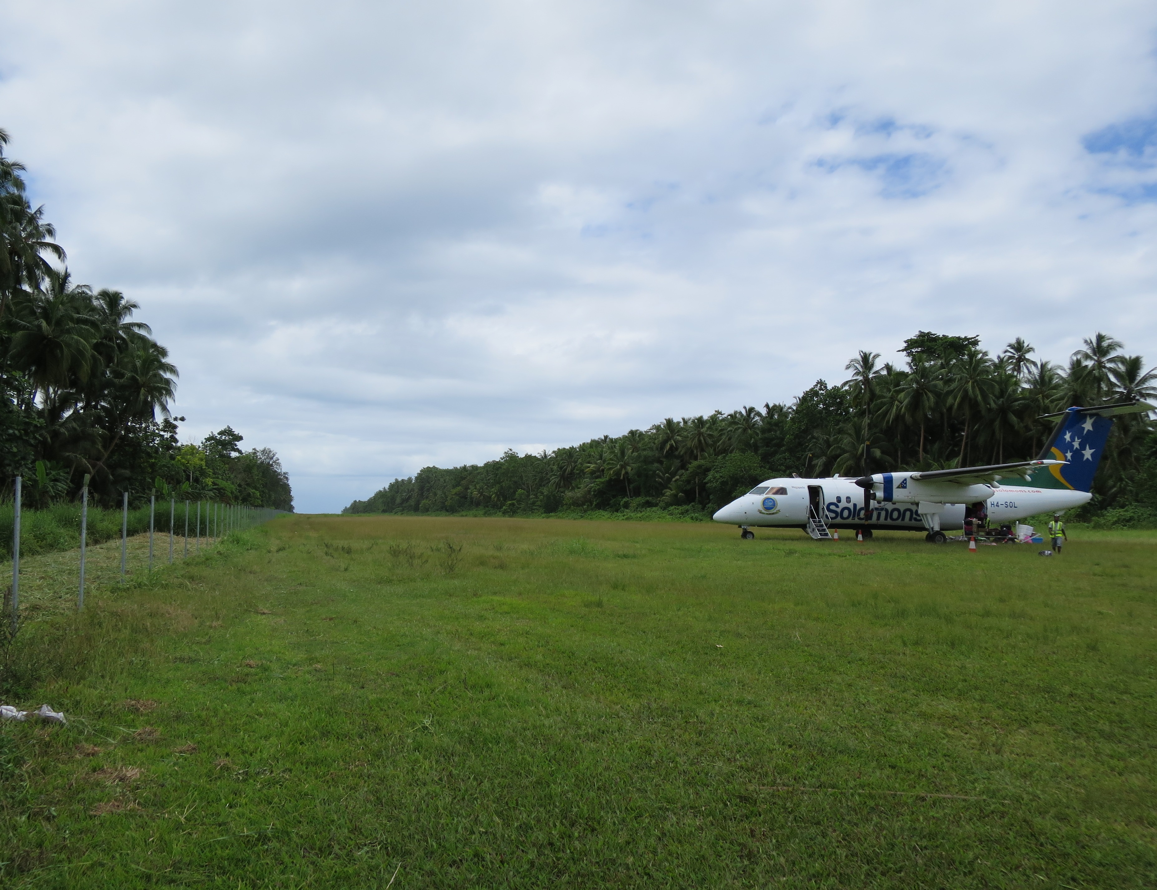 This is a photograph of the runway at Kirakira airport.